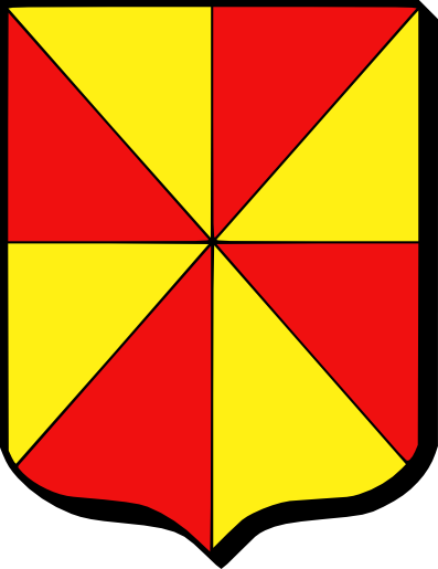 Mahe of Normandy